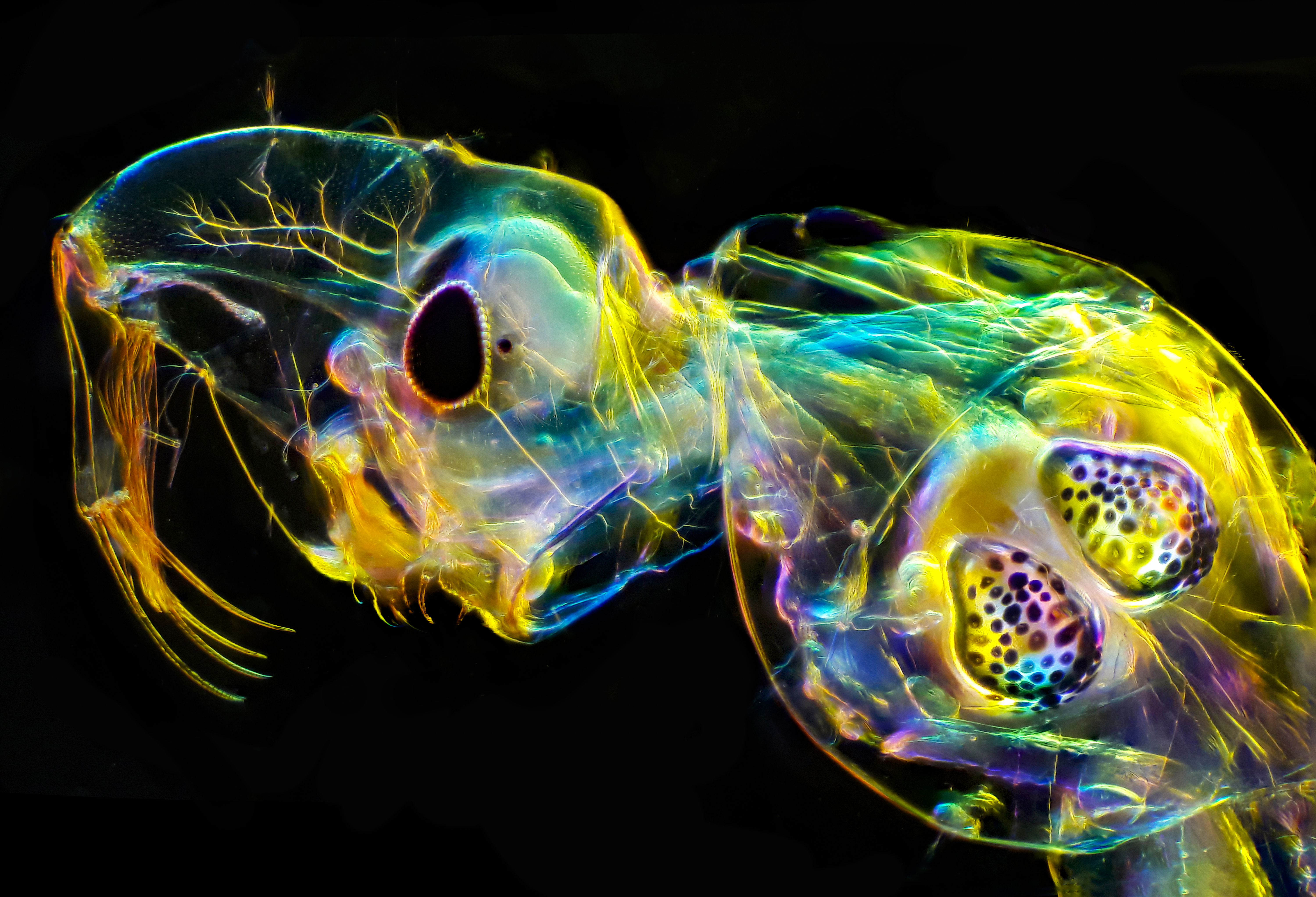 Larva of the Chaoborus. Dark field + polarization.